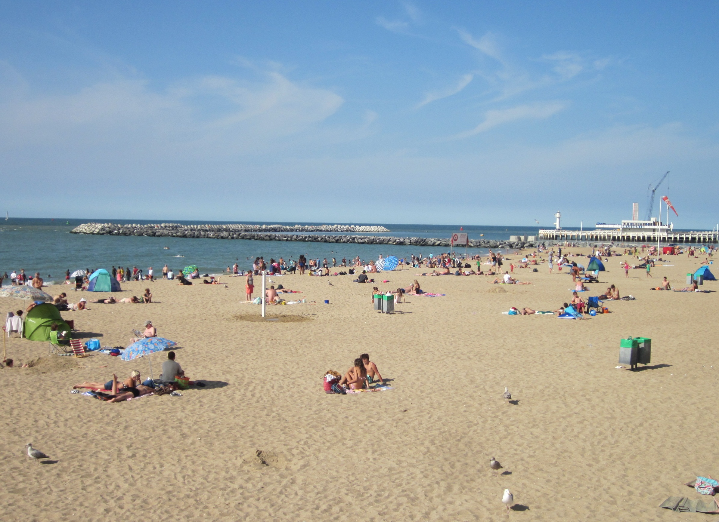 Ostend beach